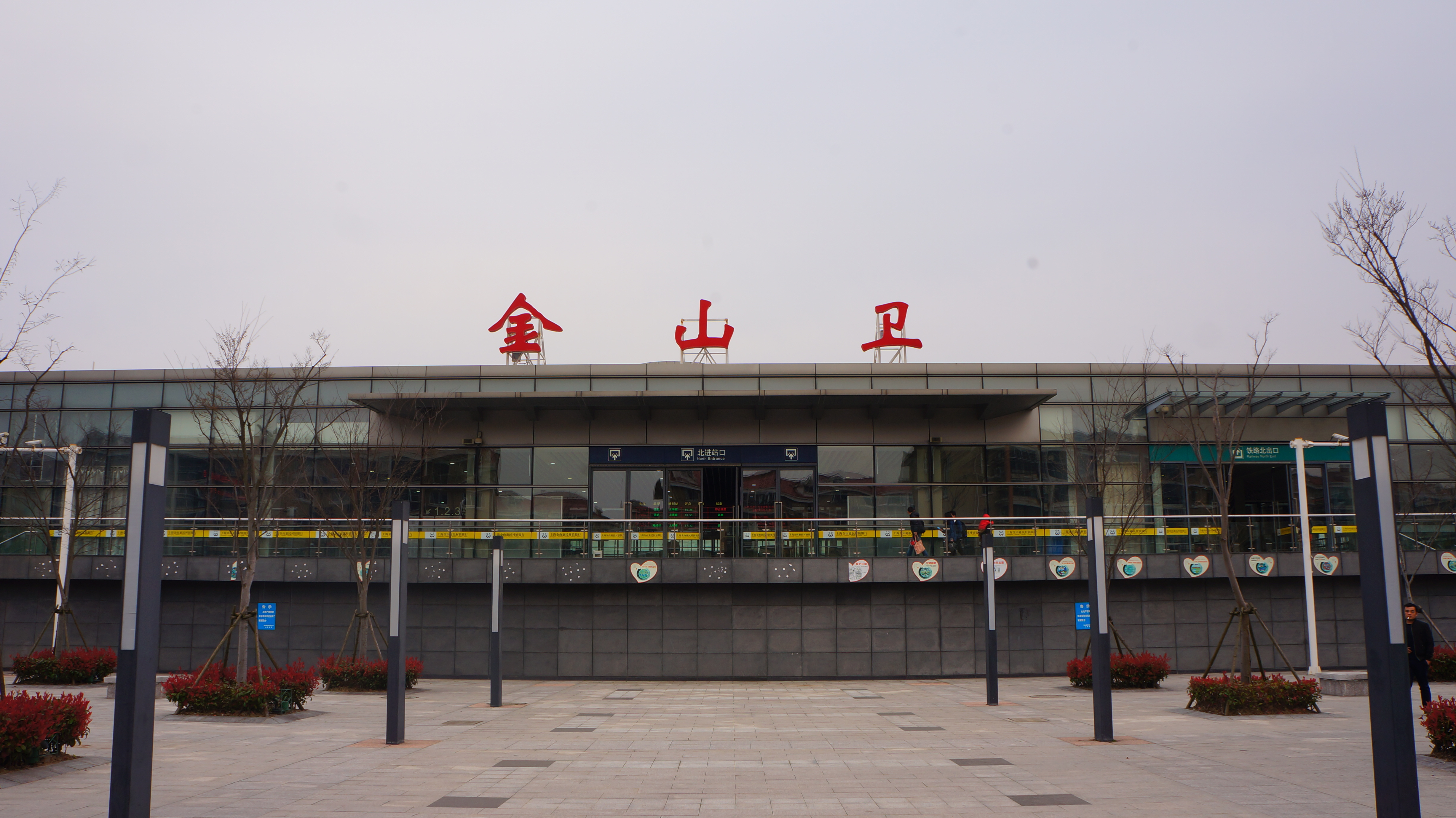 201603 Northern square of Jinshanwei Station